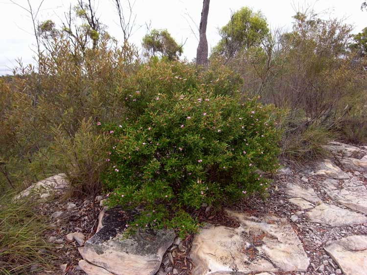 Phebalium nottii in Isla Gorge National Park. about 200 km North-east of Roma, Queensland